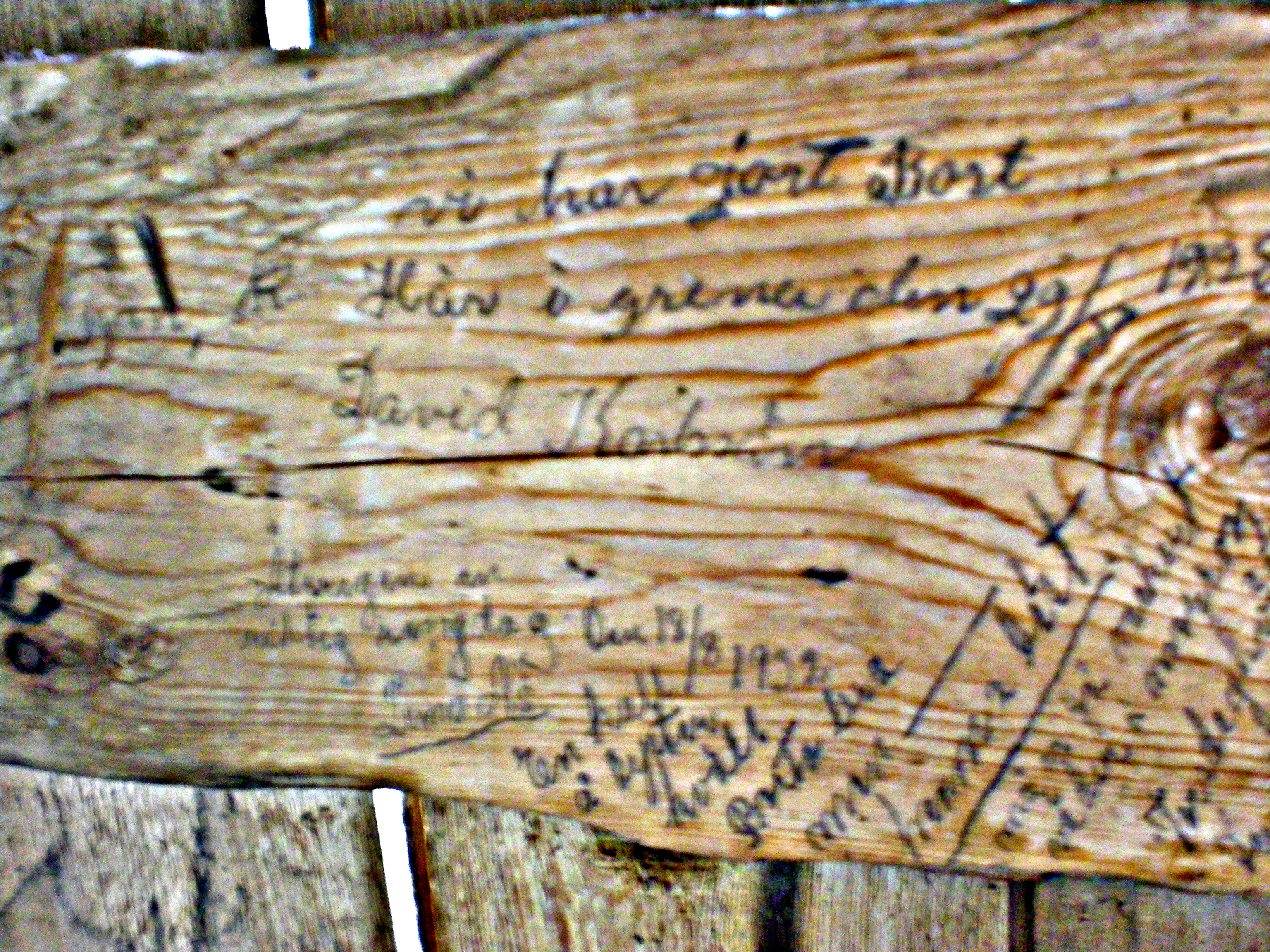 Notes from inside an old hut in Grena, North of Sweden